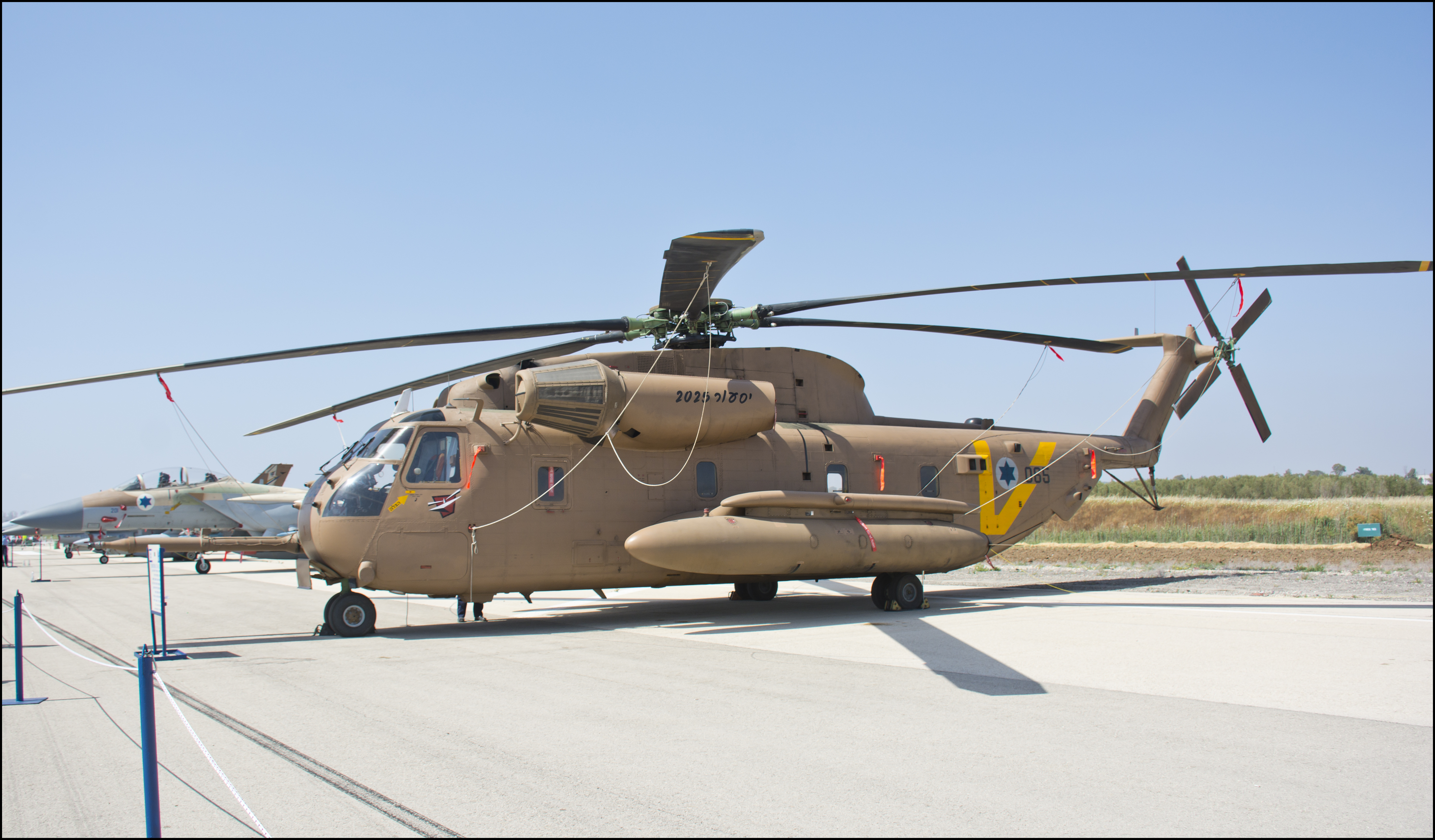 CH-53 Sea Stallion "Yas'ur" heavy transport helicopter of the Israeli Air Force, Independence Day 2017